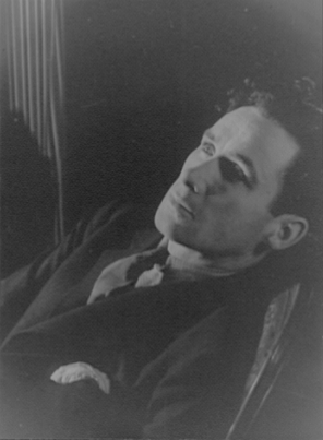 Photo of actor Denis O'Dea.Portrait of Denis O'Dea, 1933